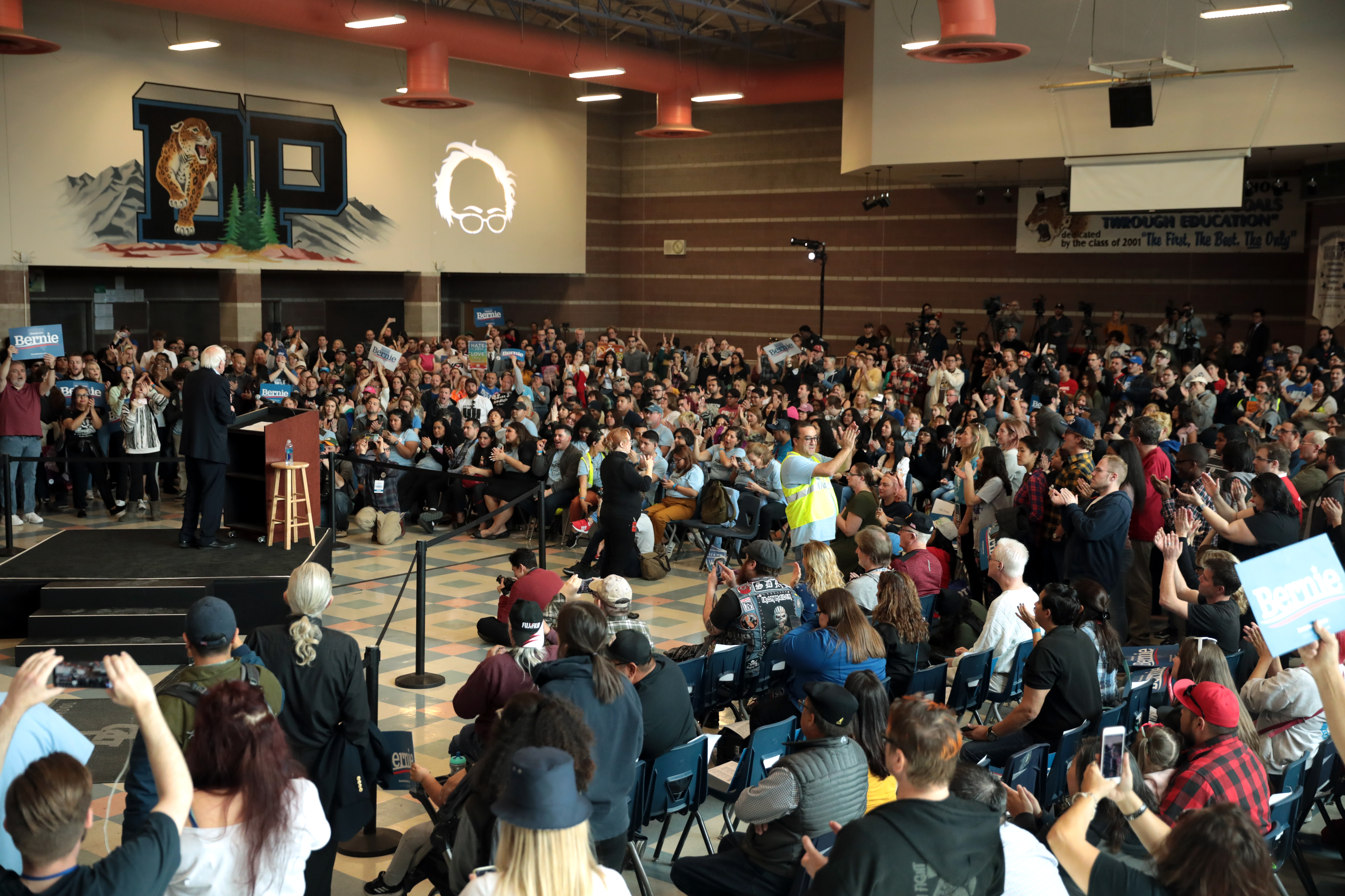 U.S. Senator Bernie Sanders speaking with supporters at a campaign rally at Desert Pines High School in Las Vegas, Nevada.